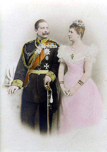 German emperor Wilhelm II and his wife Auguste Viktoria